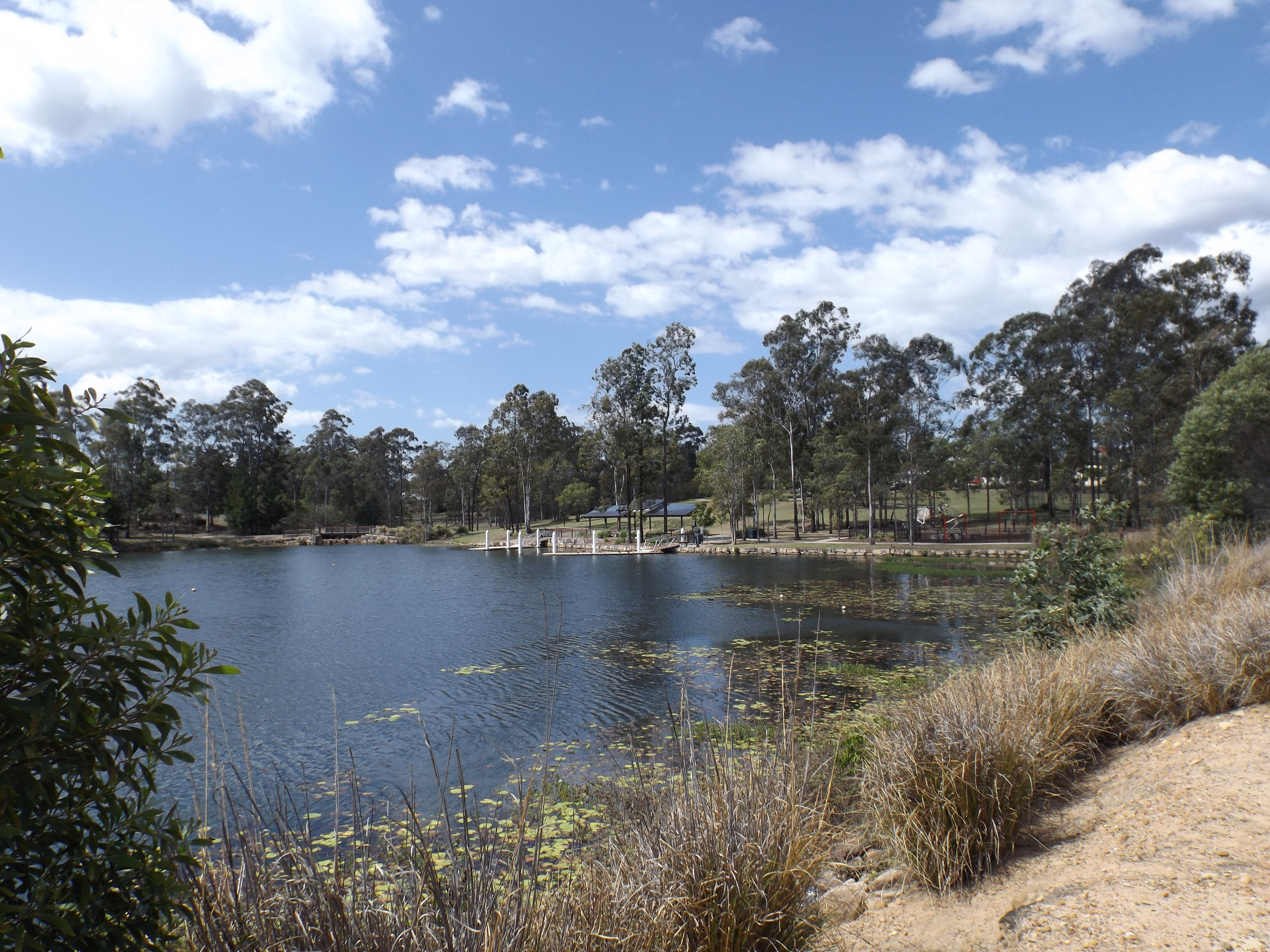 Photo of Spring Lake at Springfield Lakes, City of Ipswich, Queensland, Australia.